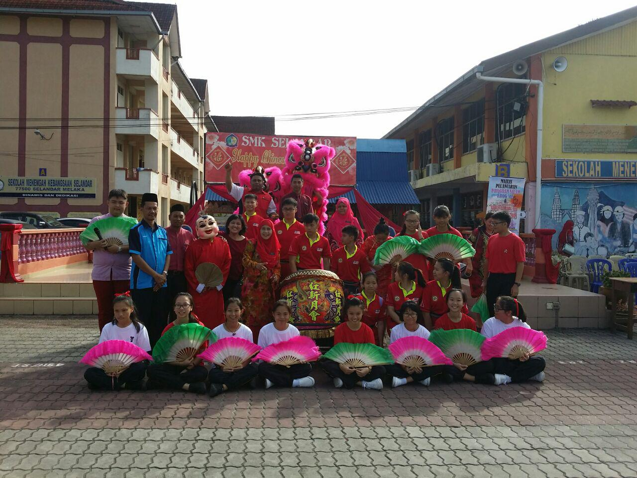 CNY 5